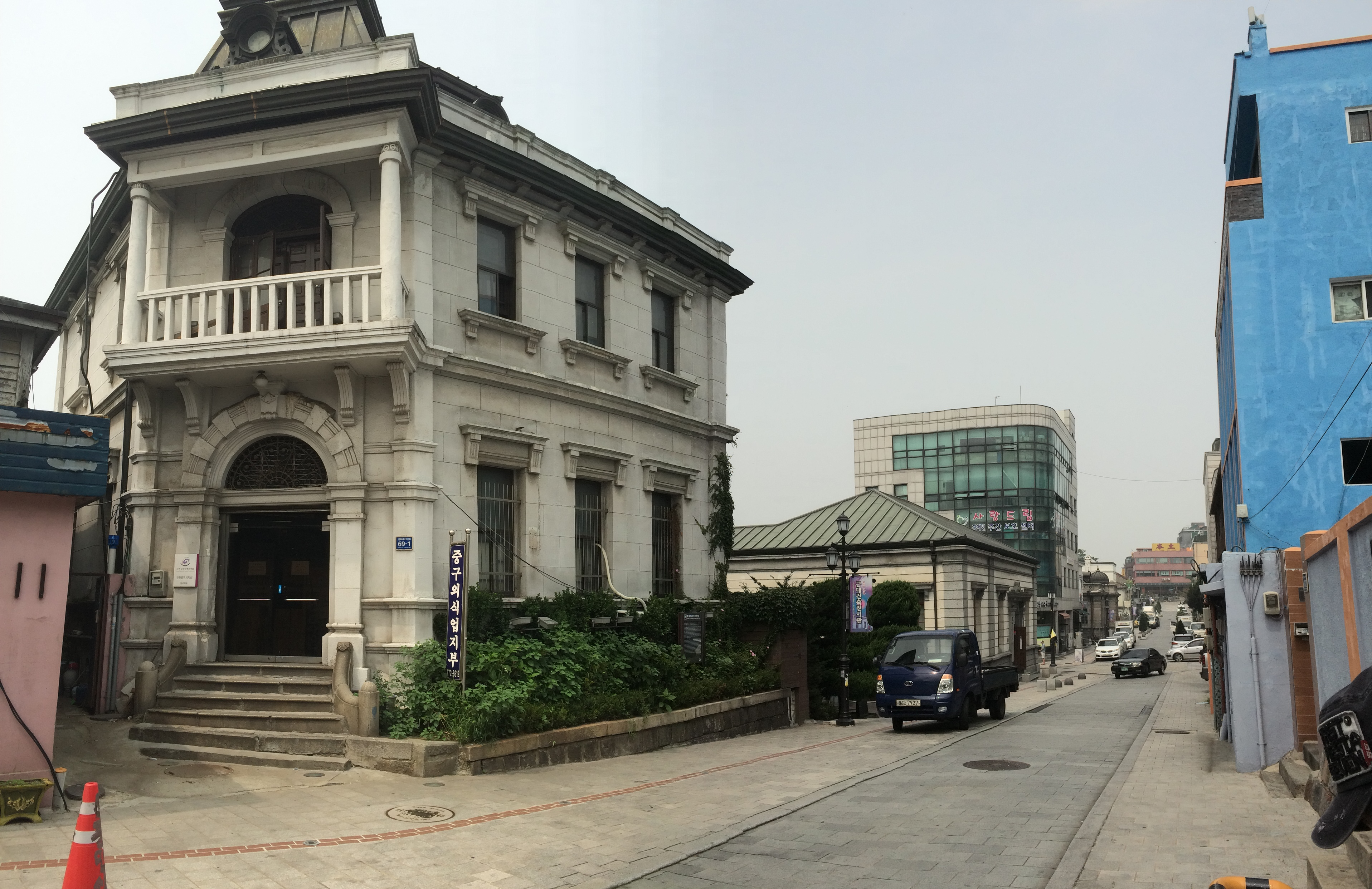 Japanese architectures built in early 1900s at the Japanese enclave of Incheon